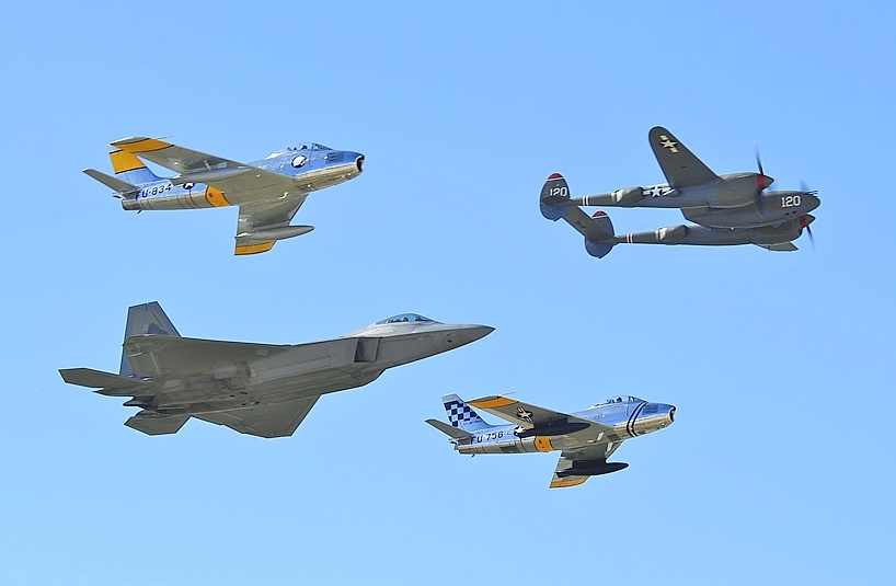 Fly by of an F-22 a pair of F-86's and a P-38